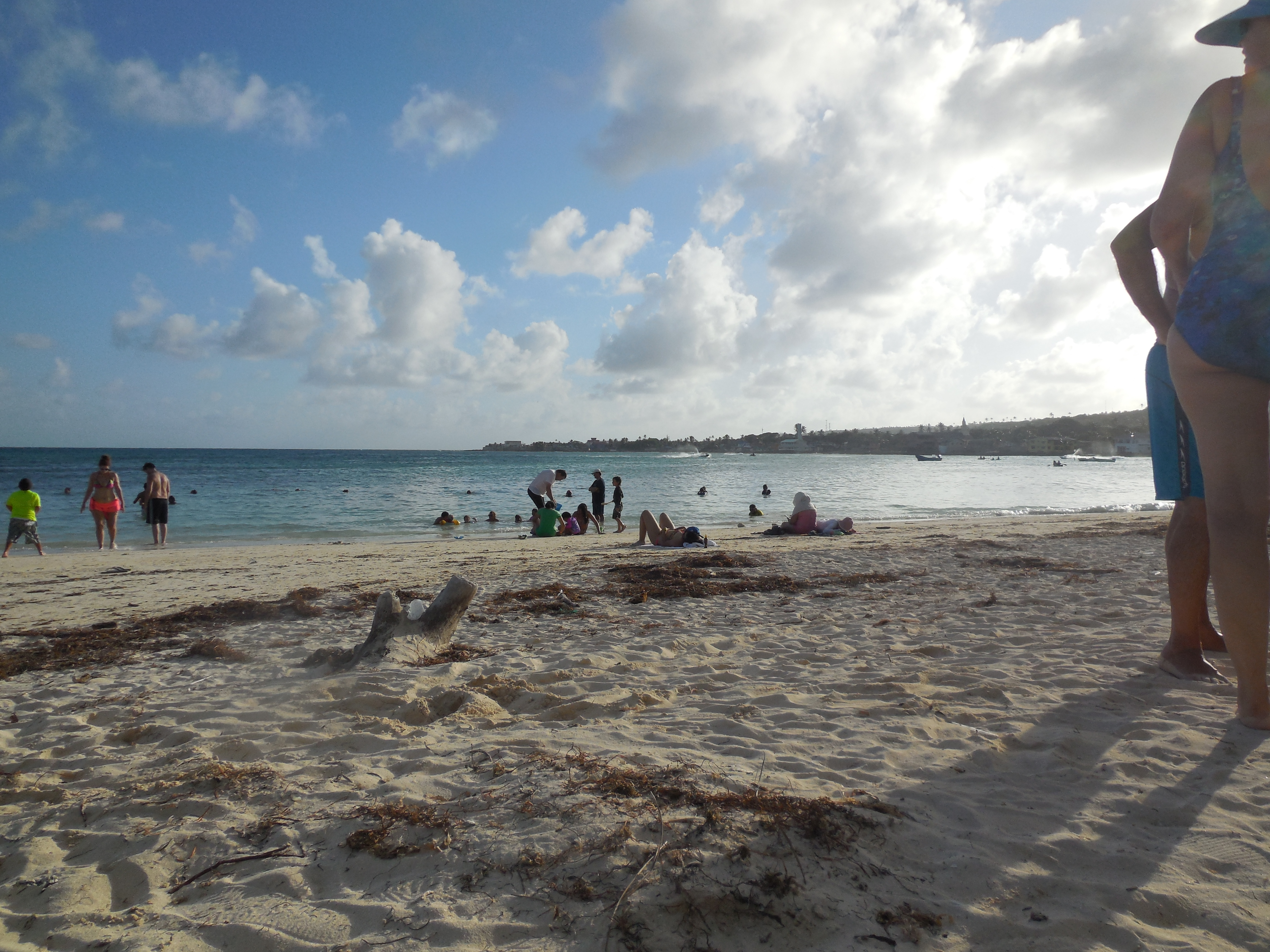 A beach on the North side of the island